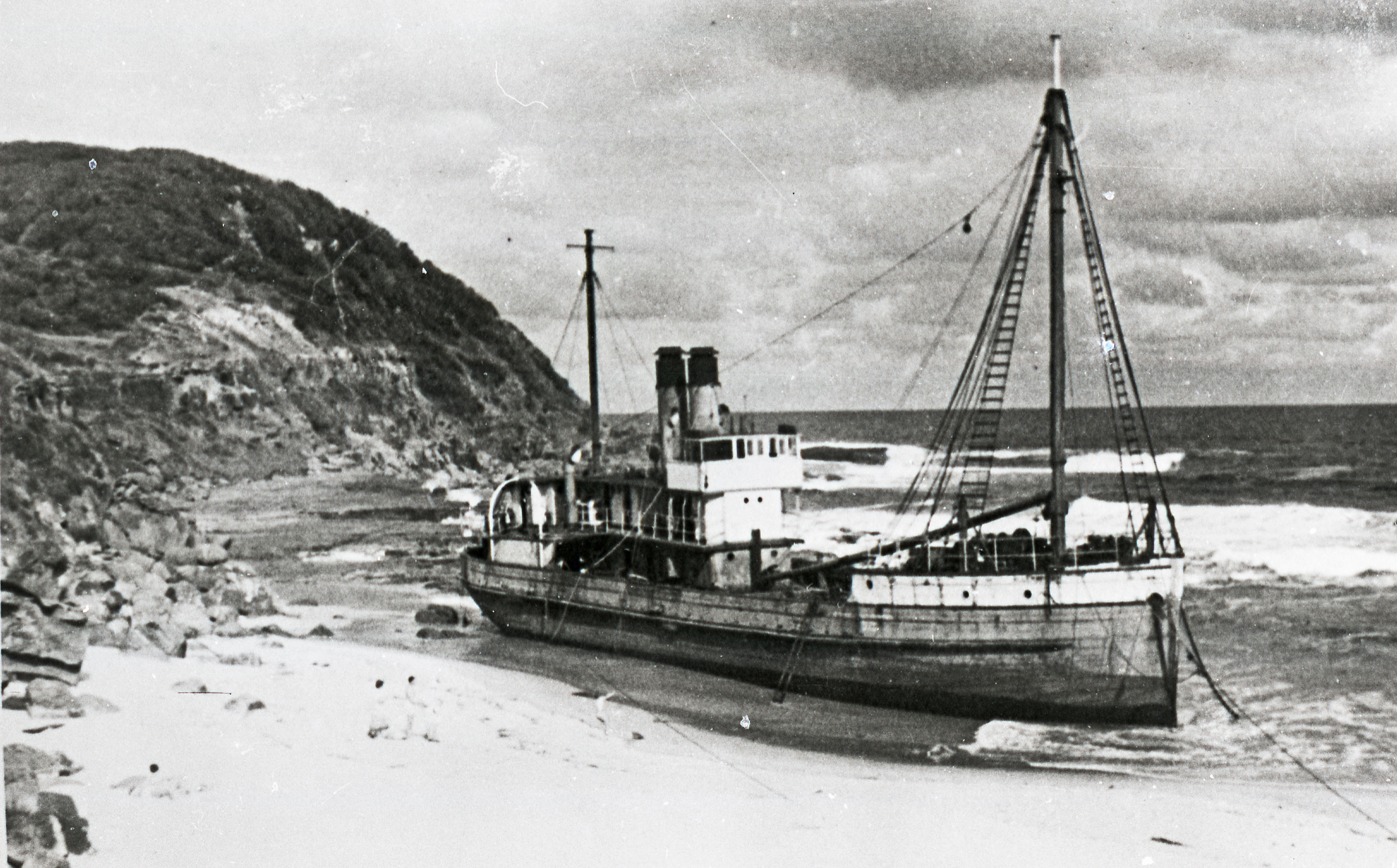 Photograph of wreck of SS Allenwood, Bird Island Beach, Norah Head, NSW.